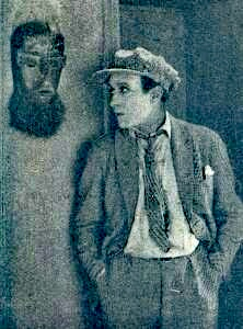 Gabriel de Gravone in Rouletabille chez les bohémiens - publicity still